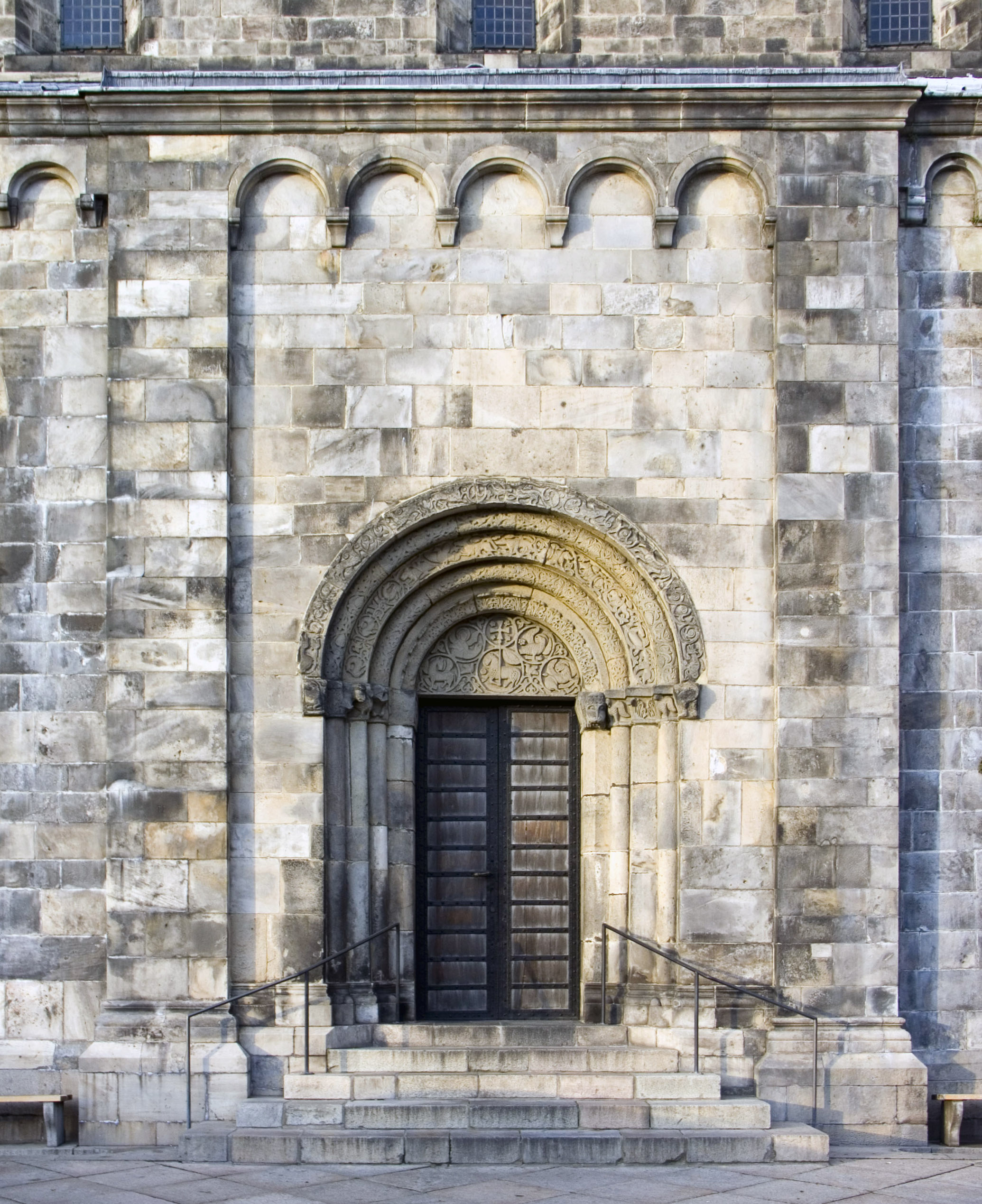 The south door of the cathedral in Lund, Sweden.